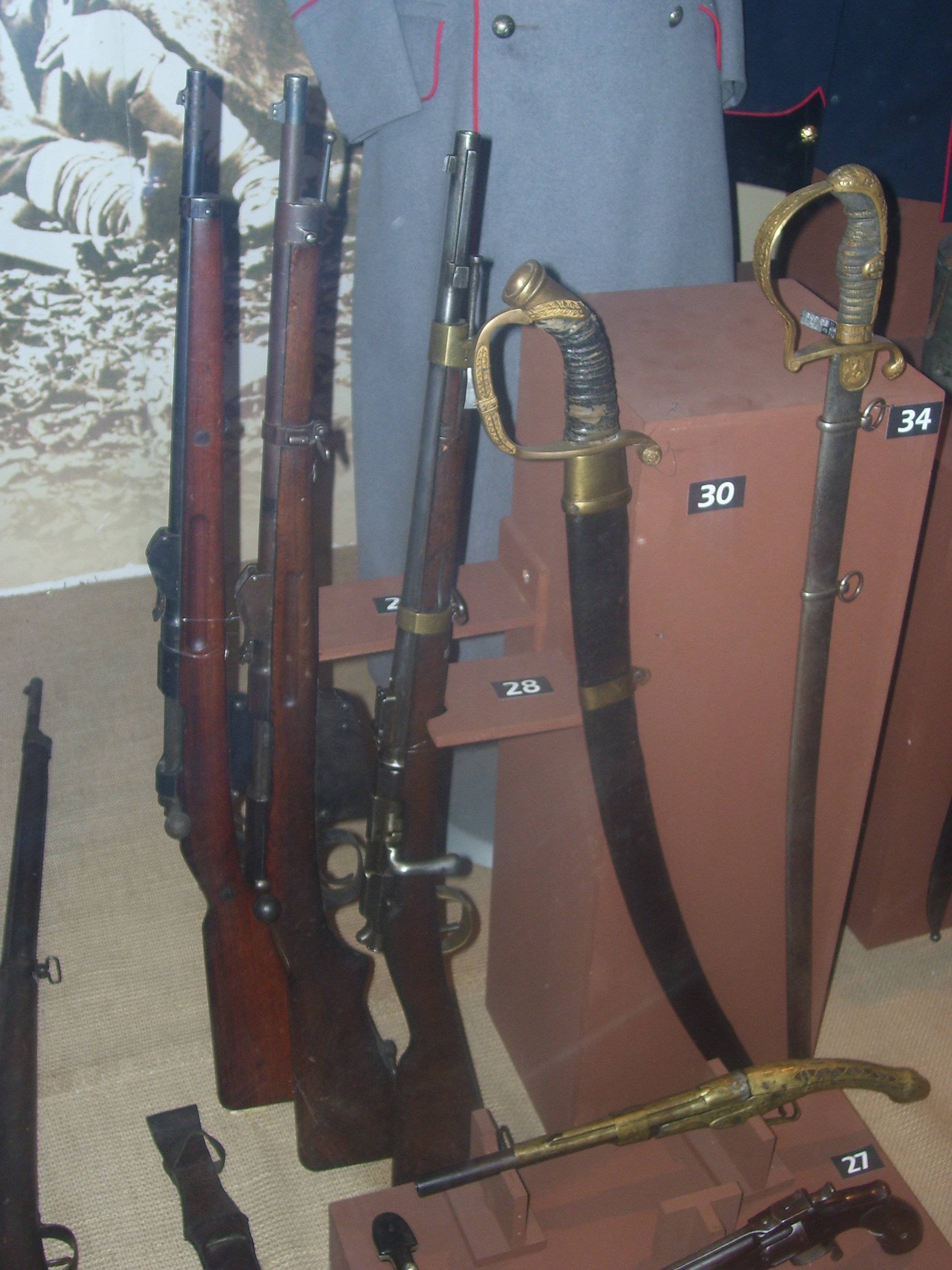 Carbines NMHM Sofia